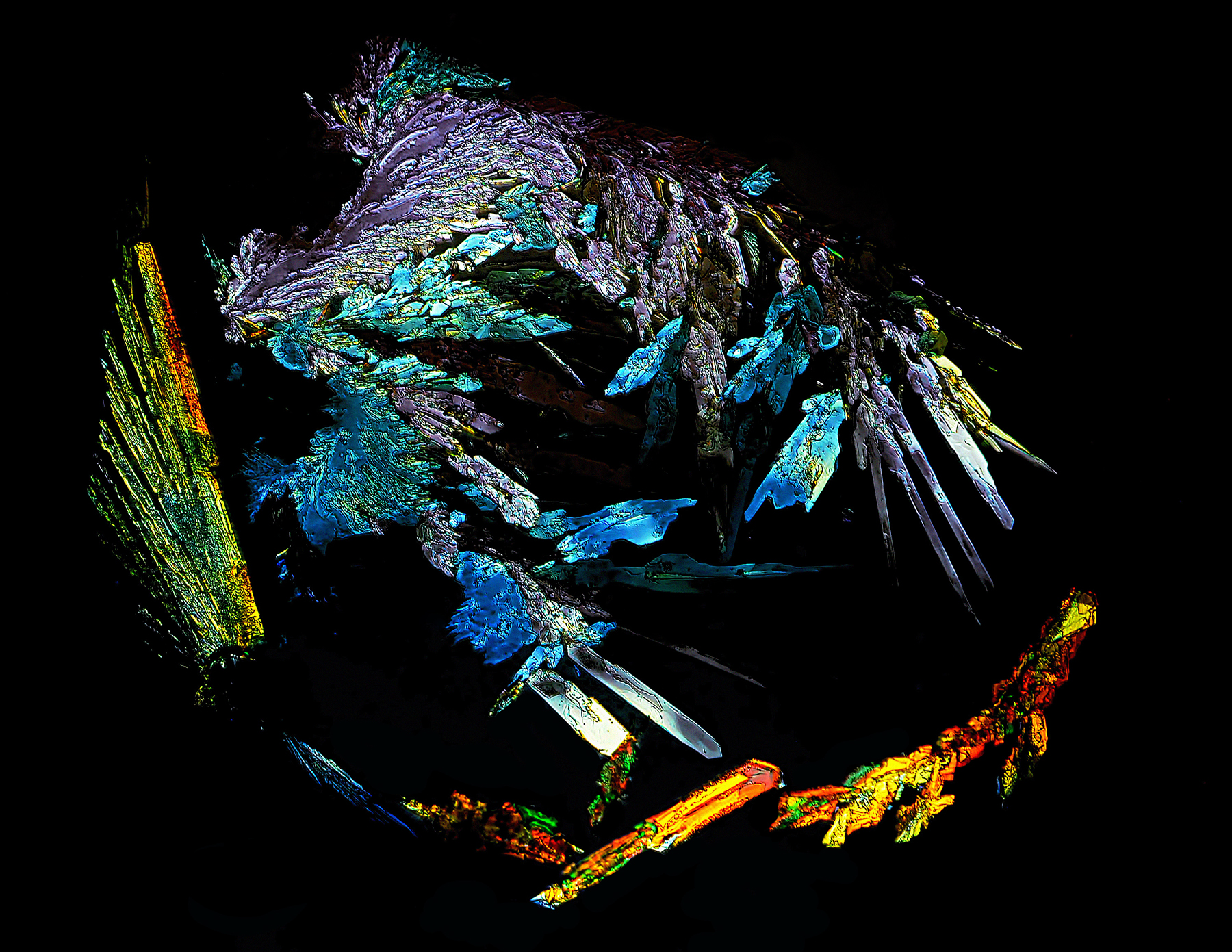 Ammonium Dichromate under polarized light microscope